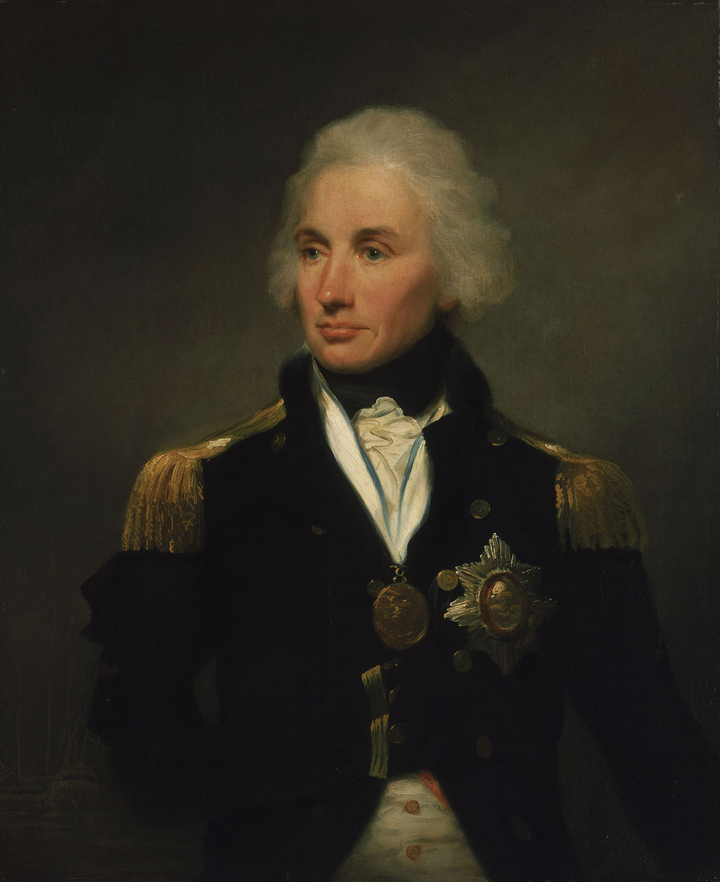 A half-length portrait facing left in rear-admiral's undress uniform, 1795–1812, with the St Vincent medal and the star of a Knight of the Bath. The empty right sleeve is pinned across with the upper part slit and tied with ribbons to accommodate the wound dressing following the loss of Nelson's right arm at Santa Cruz, Tenerife, in July 1797. This portrait is believed to be the first of many replicas made from the only oil sketch of Nelson that Abbott painted from life. At the time Nelson was painfully recovering from the loss of his arm and staying with his former captain William Locker, then Lieutenant-Governor of the Royal Hospital for Seamen, Greenwich. Nelson gave Abbott two sittings while at Greenwich, and from this he produced a sketch that he used as a pattern for as many as about forty portraits of him. The dating of this one is 1798, since Nelson’s KB was awarded on 27 September 1797 and the blue flag at the mizzen of the ship in the lower left corner denotes his rank as Rear-Admiral of the Blue. The original portrait, engraved by Richard Earlom in 1798, was in the Abbott sale of 1804. It was owned by the painter Sir Francis Grant in 1874 and then by Lord Sandys and his descendants. This version was presented by Nelson to his prize-agent, Alexander Davison and bequeathed to Greenwich Hospital in 1873 by Davison’s grandson, Sir William Davison.